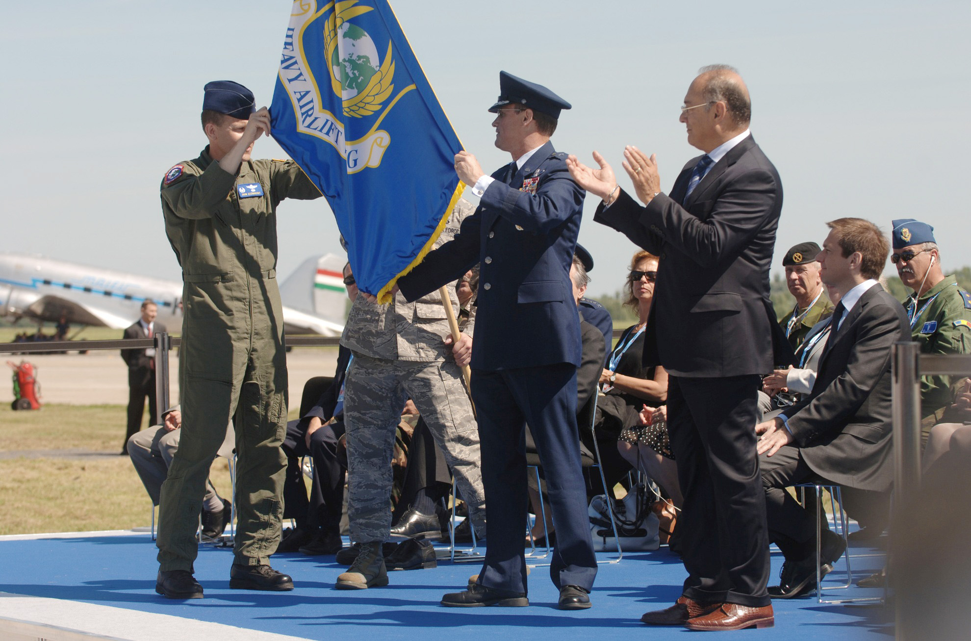 During the official activation ceremony of a first-of-its-kind multinational Heavy Airlift Wing at Papa Air Base, Hungary, July 27, U.S. Air Force Colonel John Zazworsky and Brigadier General Richard Johnston unveil the organizational flag. The ceremony celebrated the efforts of the 12 nations who, during the last 10 months, stood up the organization that will provide strategic airlift worldwide for humanitarian, disaster relief, and peacekeeping missions in support of the European Union, United Nations, and NATO.